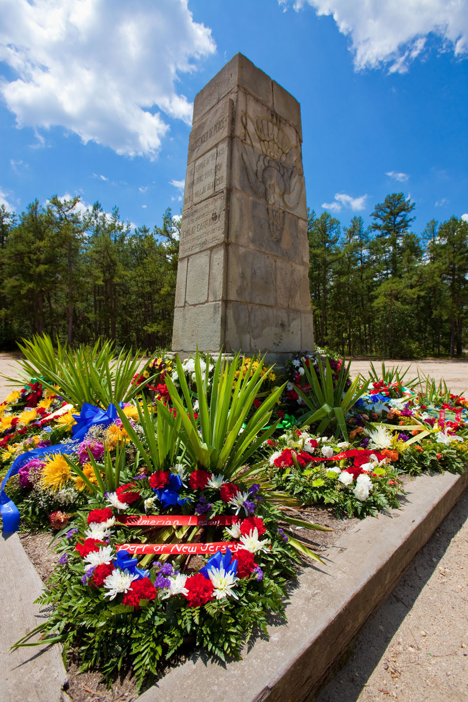 The Carranza Memorial in Tabernacle, New Jersey. Site of the crash of aviator Captain Emilio Carranza in 1928, during his return flight to Mexico from New York.